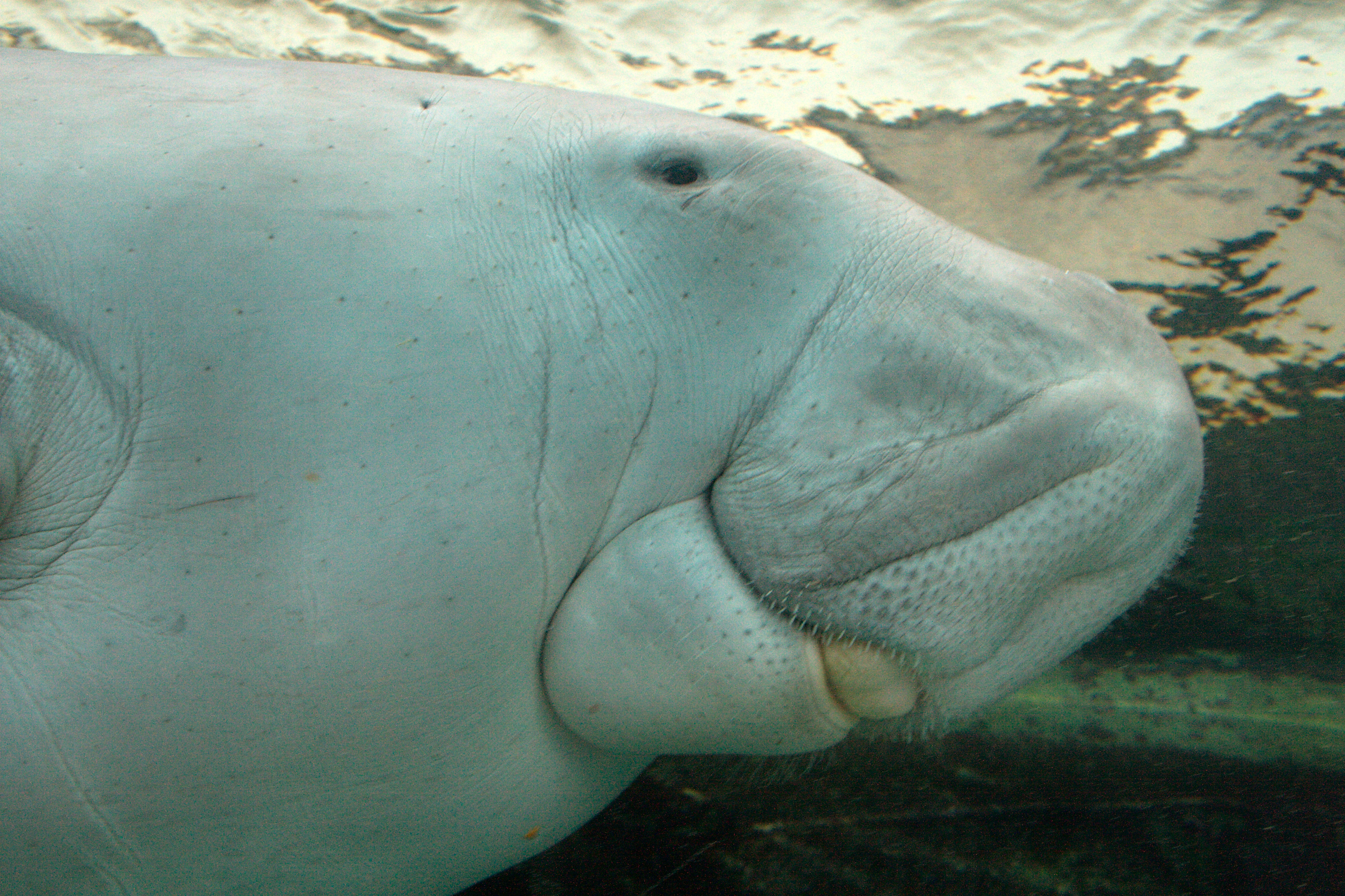 Dugong at the Sydney Aquarium